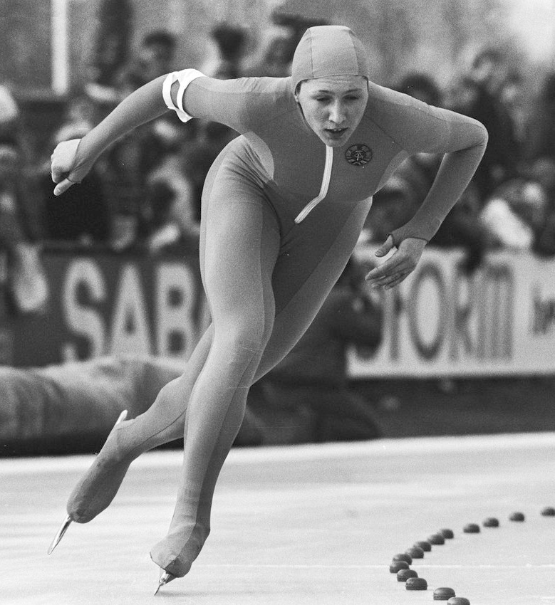 EK schaatsen vrouwen in Heerenveen. Karin Enke in actie op de 1500 meter.